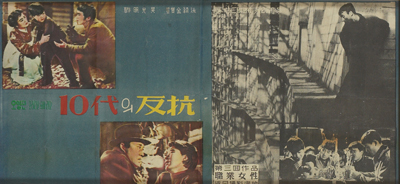 1959 Korean movie poster for 1959 Korean film Defiance of a Teenager (10대의 반항 Shipdae-eui banhang).